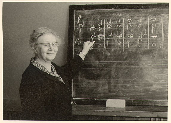 Photograph of the Finnish music educator Greta Dahlström (1887–1978).